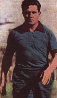 Bernabe Ferreyra during his time as a Tigre player in Argentina (1929-1931).